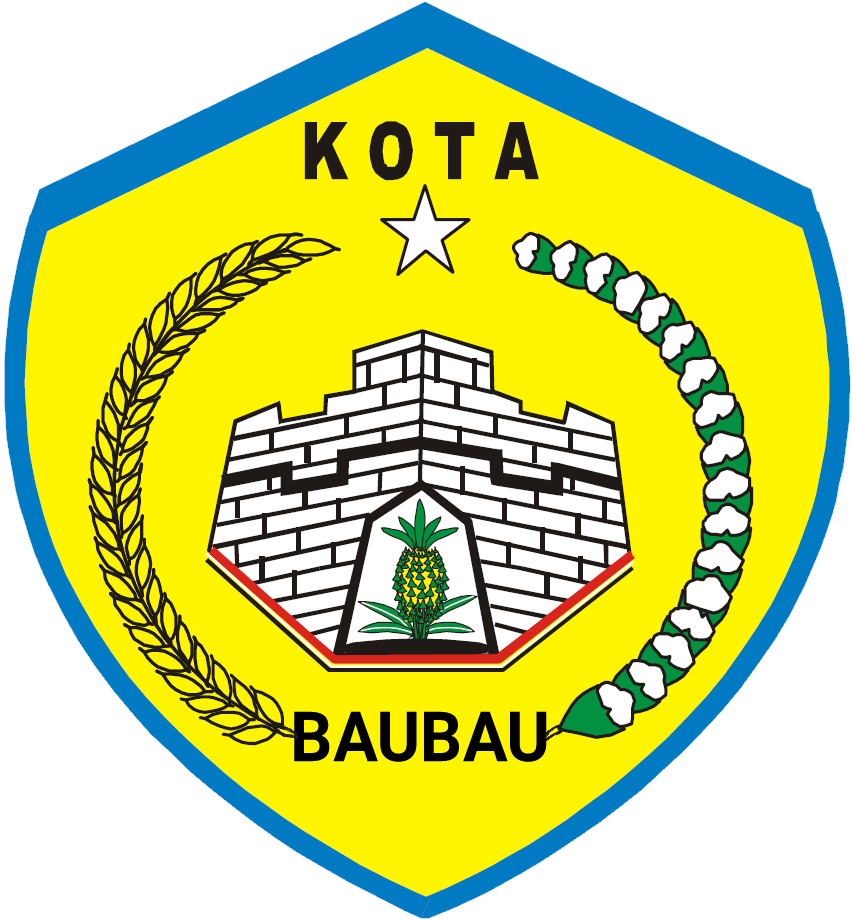 Coat of arms of Bau-Bau city, South East Sulawesi